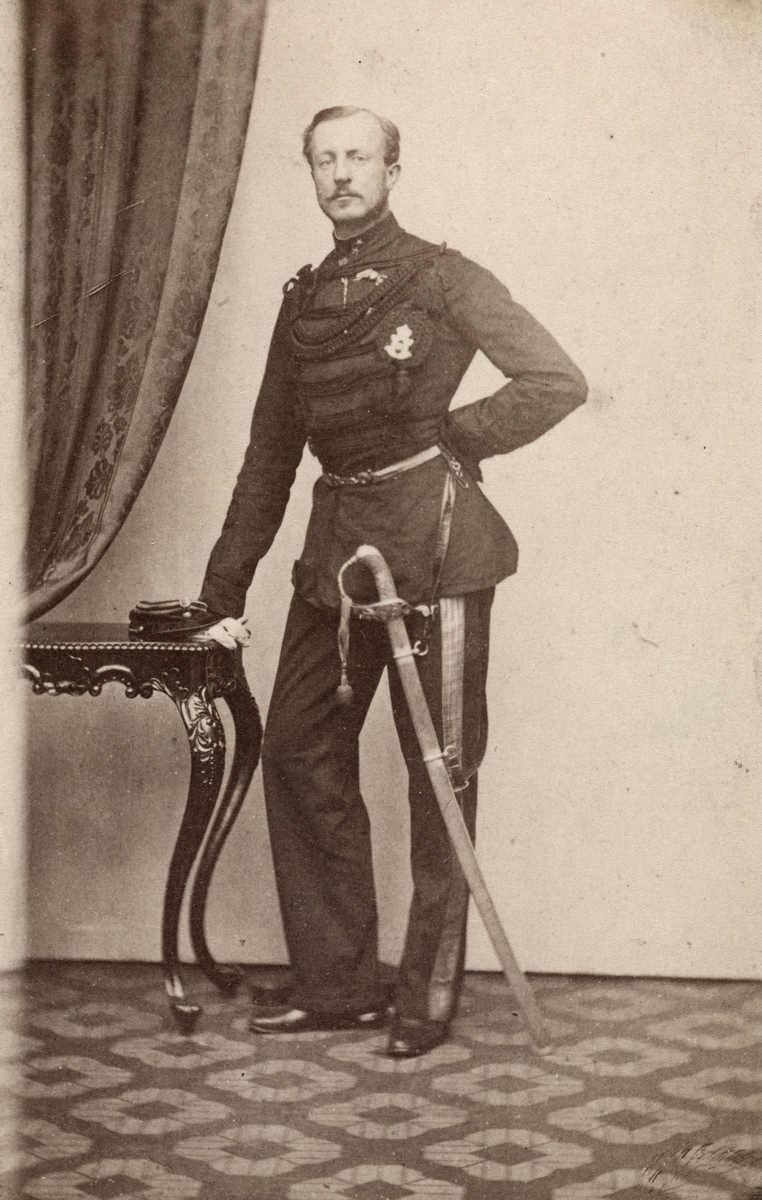 Carl Johan Anker, officer and writer from Norway.